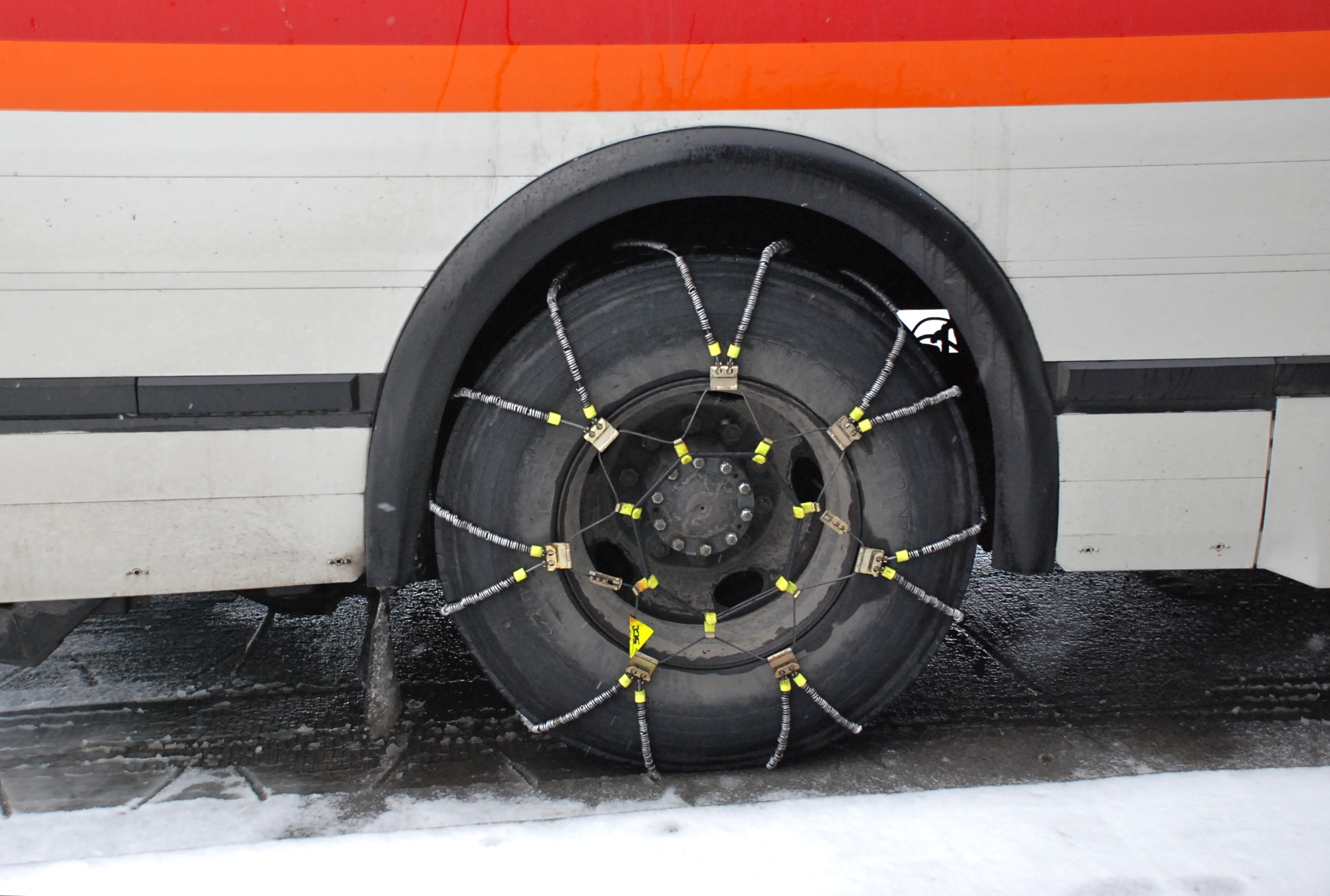 Cable-type snow chains on the rear tires of a TriMet bus. (This particular bus was a 1992 Flxible.)